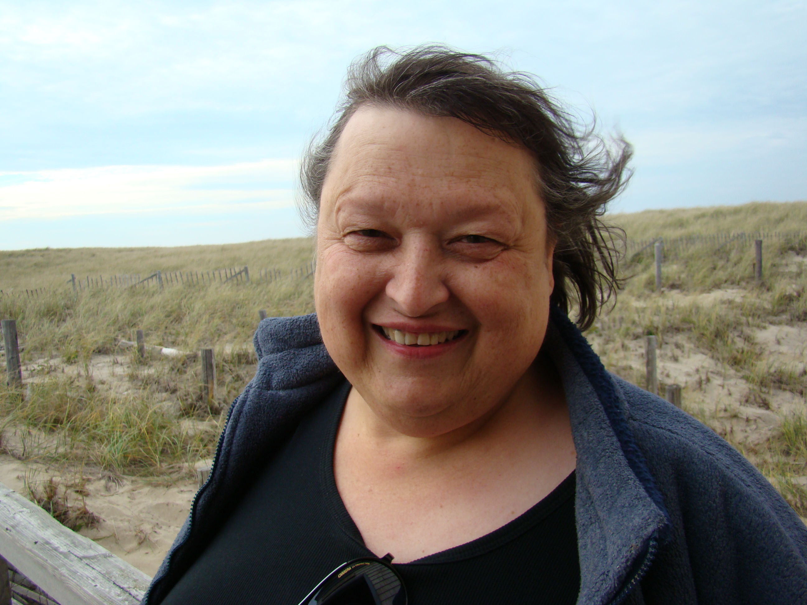 Self-Portrait